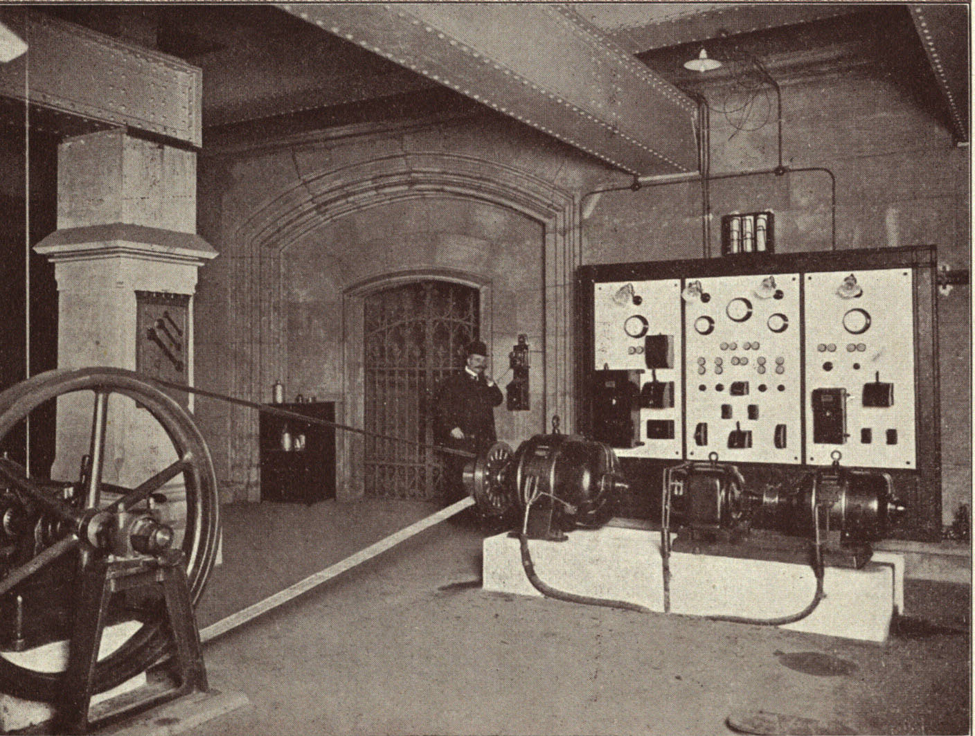 Cologne Cathedral, south tower: electric chime by Ernst & F. Wiebel, control panel and motors from Bruncken Motoren (Cologne), 1909